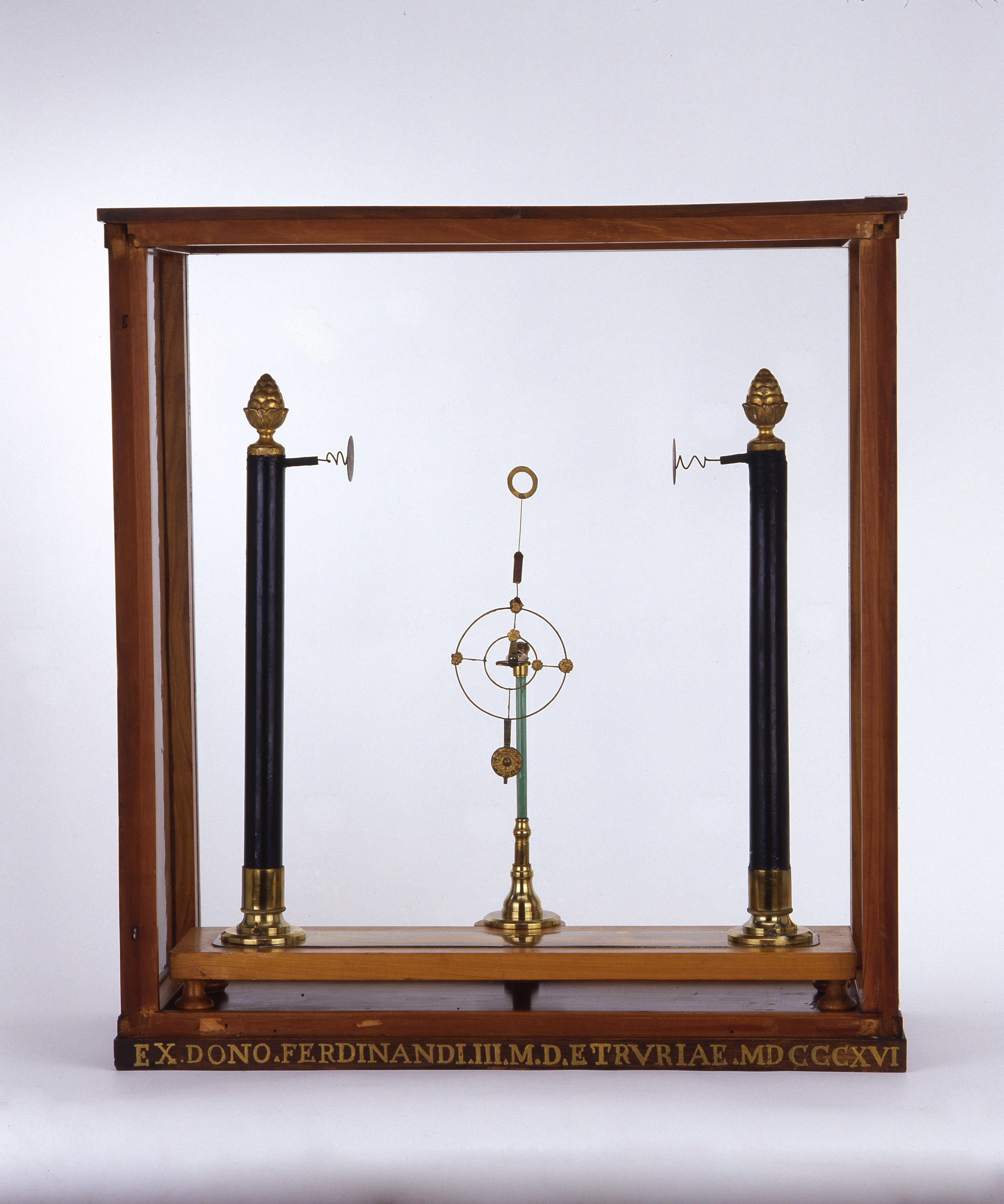 electric pendulum